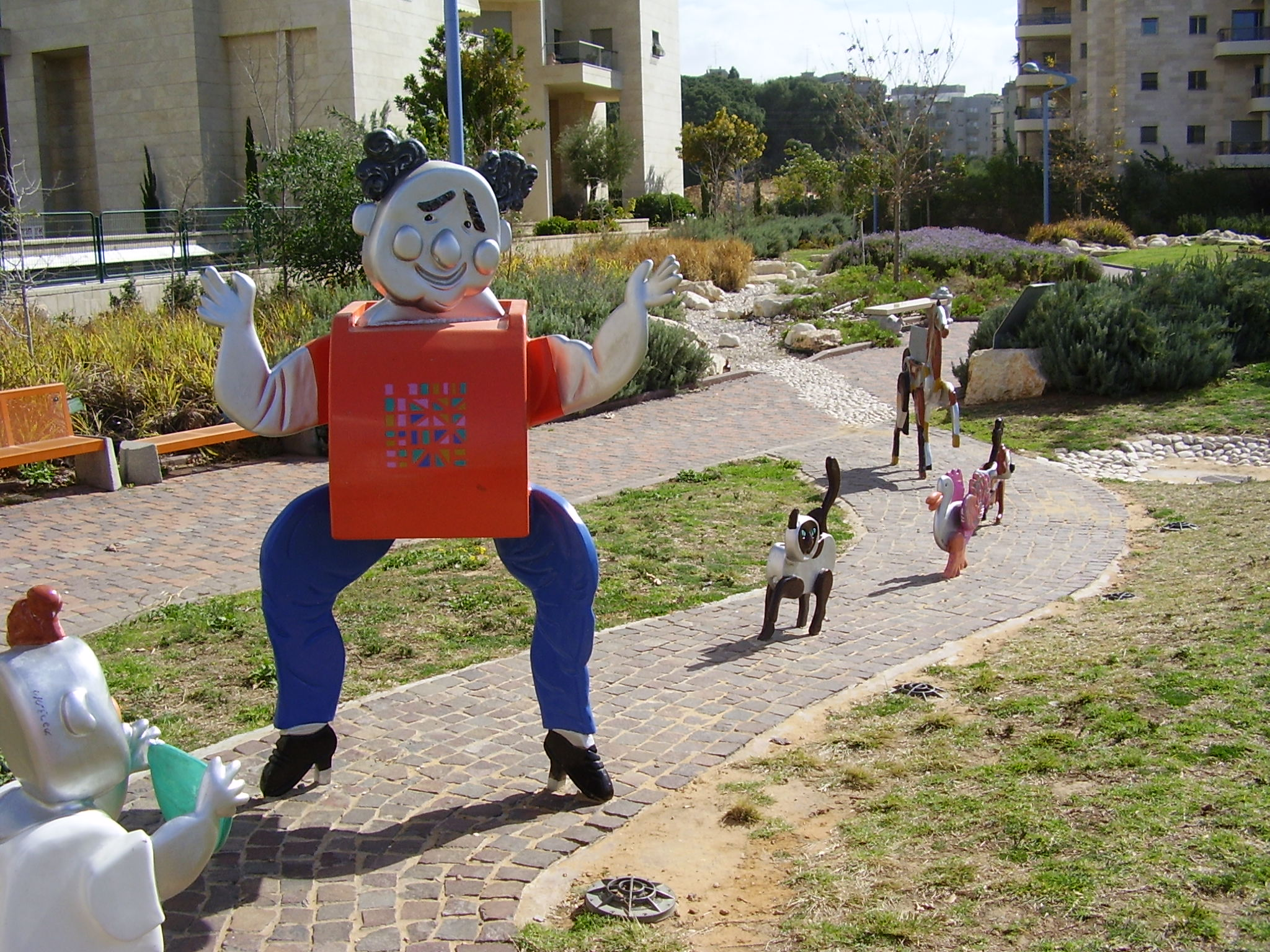 Uncle Simcha story garden in Holon